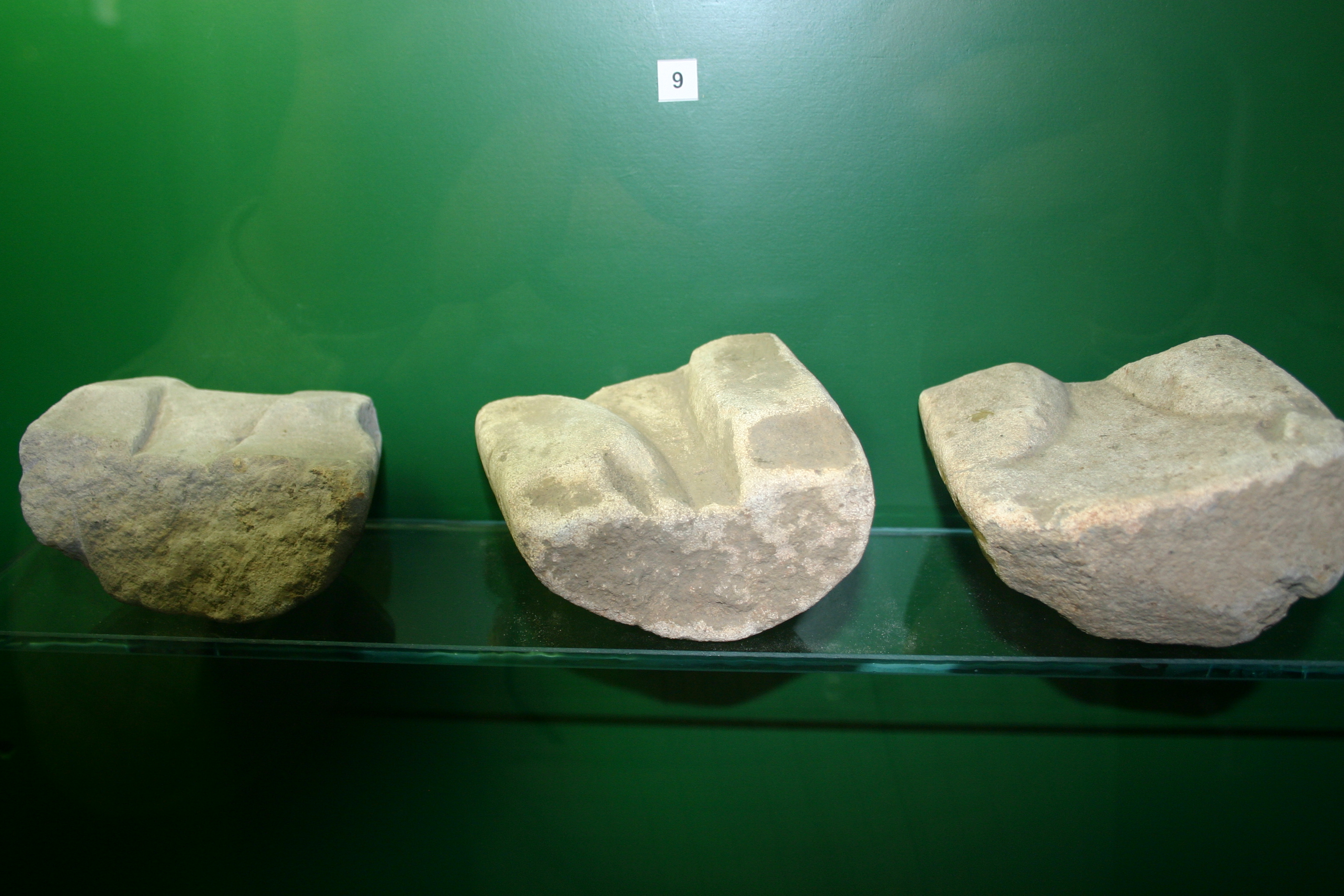 With thanks to the Batumi Archaeological museum for allowing photography